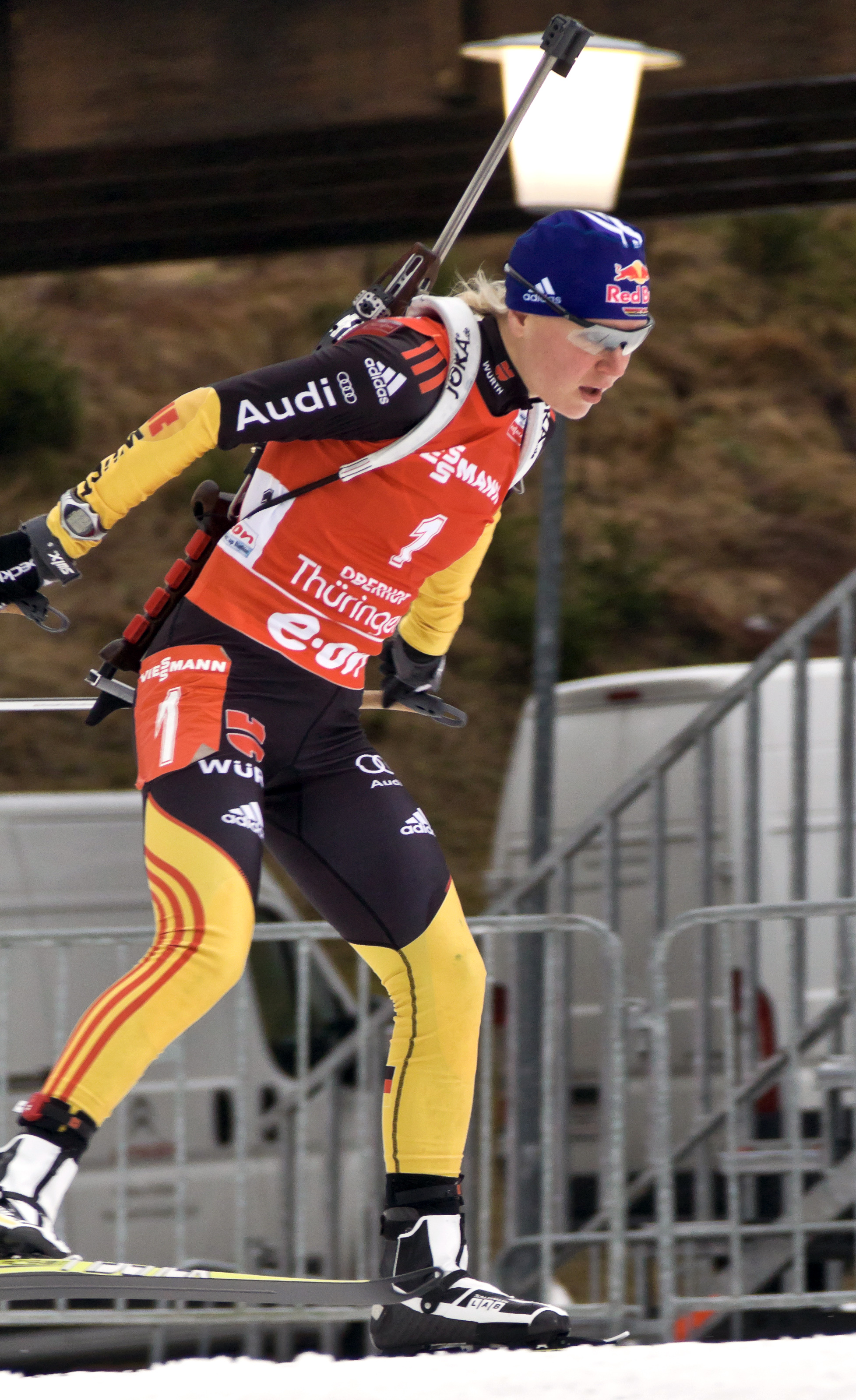 German biathlete Miriam Gössner in world cup pursuit race in Oberhof. Cropped from File:Miriam Gössner in Oberhof pursuit race 01.jpg